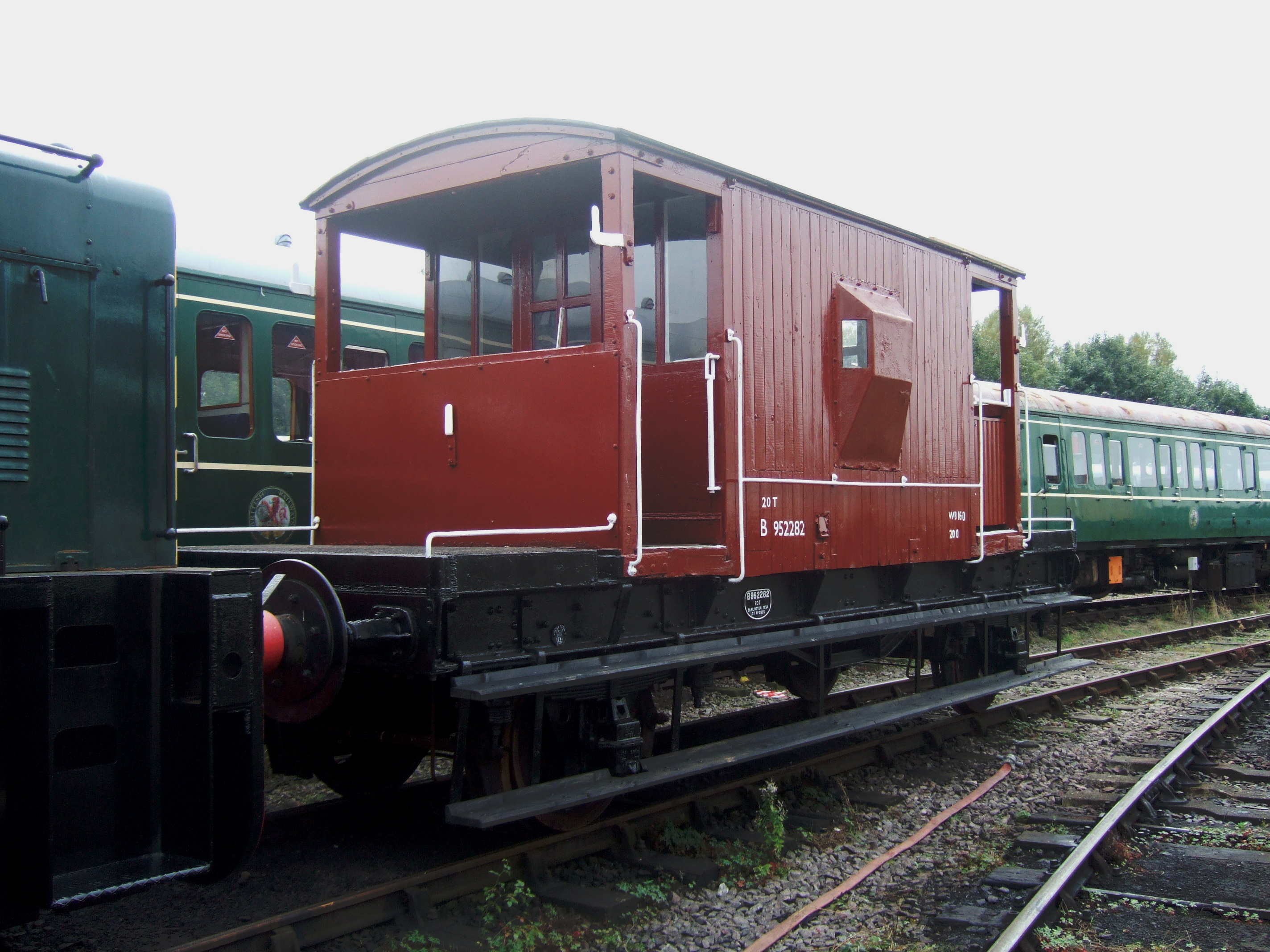 Newly overhauled 952282